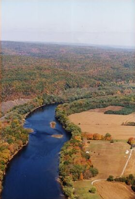 The Middle Delaware River above Walpack Bend. A wide river in a valley of forest and farmland.